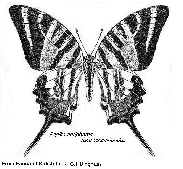 Papilio antiphates epaminondas = Graphium epaminondas (Oberthür, 1879)